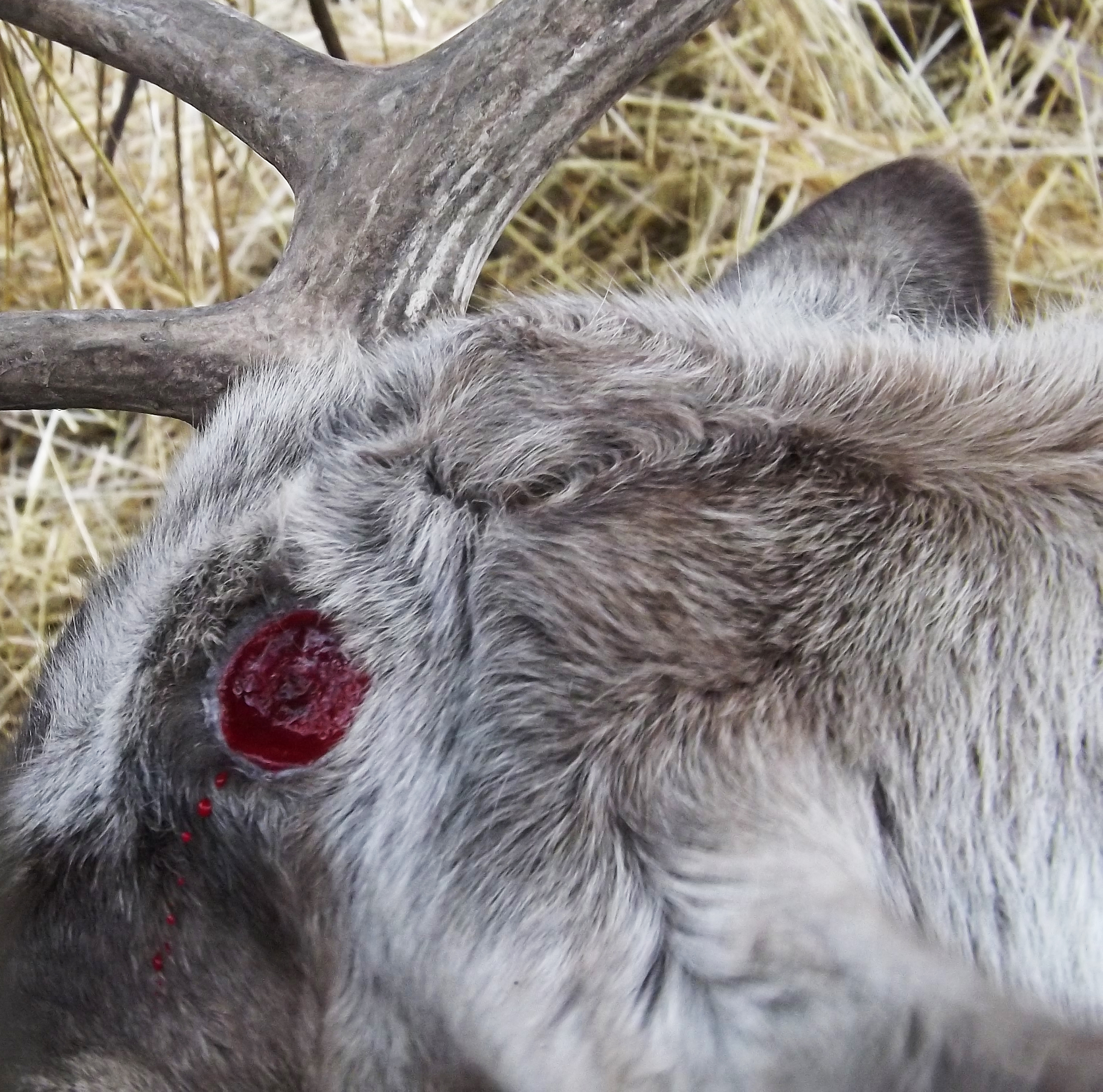 Deer with broken antler in Miskolc Zoo.